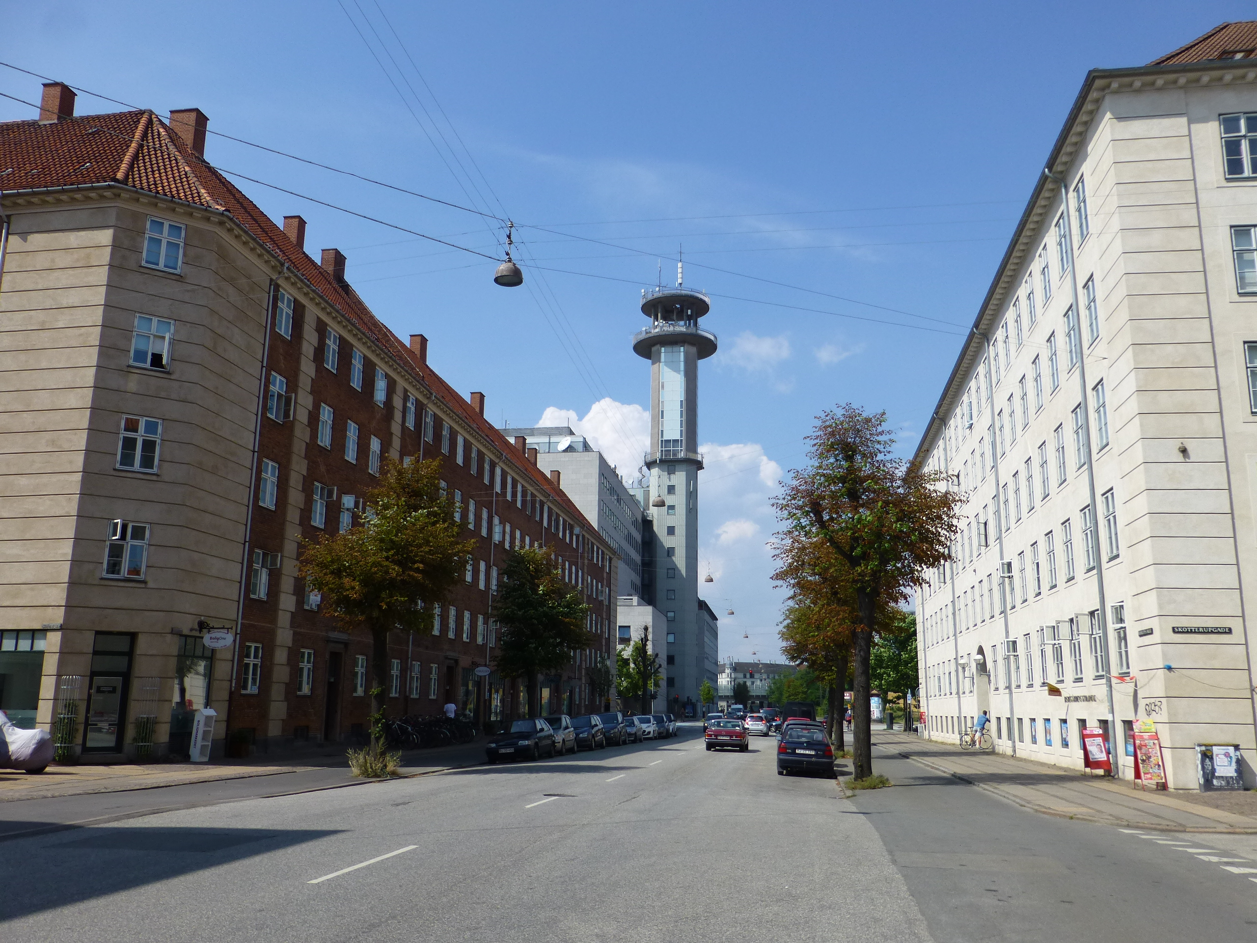 The street Borups Alle in Nørrebro in Copenhagen.